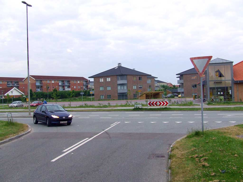 T-intersection without traffic light in Århus, Denmark